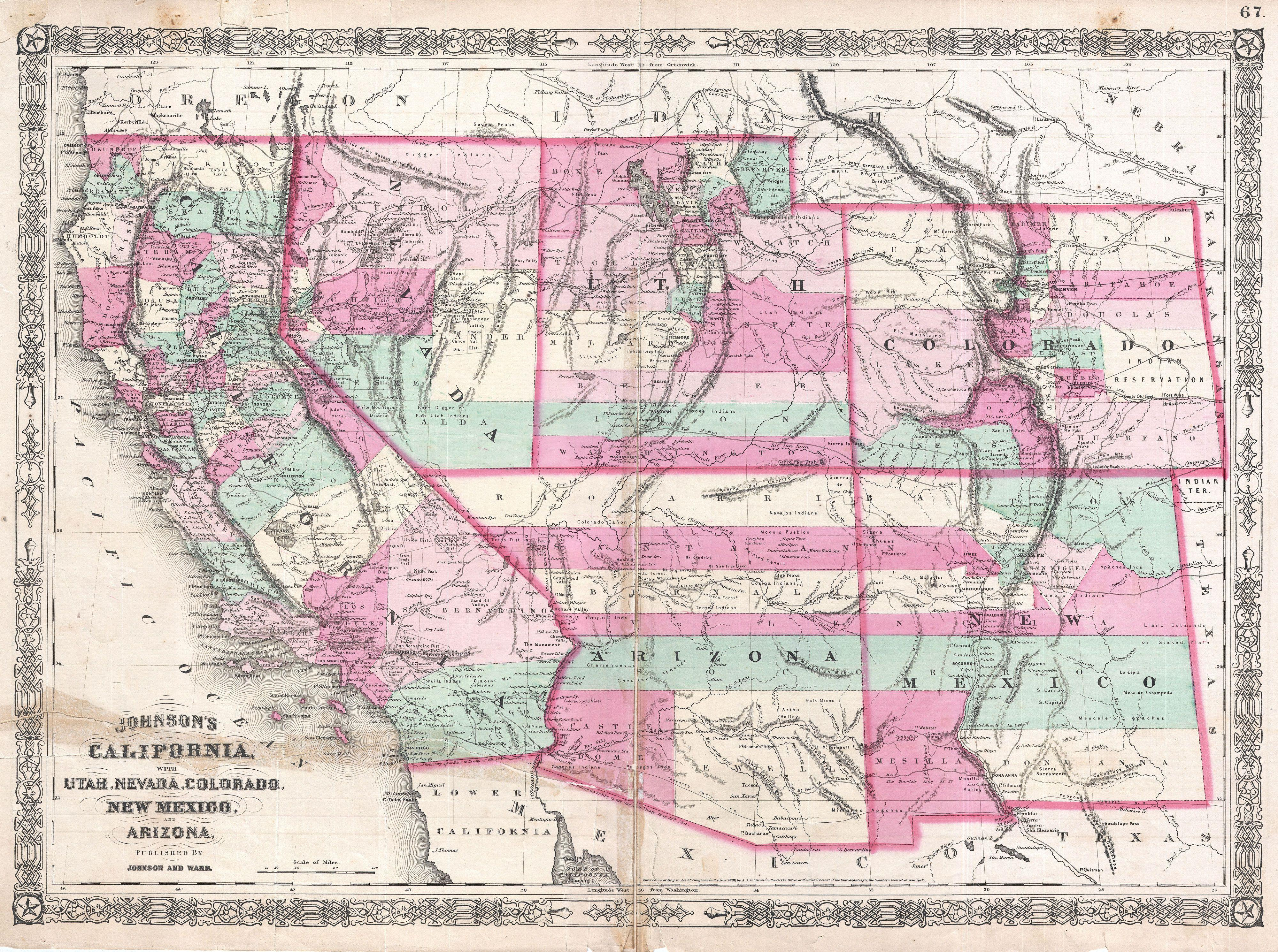 This is Johnson and Ward’s 1864 map of the American southwest. Depicts the state of California and the territories of Nevada, Utah, Colorado, Arizona and New Mexico. Offers superb detail noting mining districts, emigrant trails, the Santa Fe Trail, the Pony Express Route and several proposed railroads as well as American Indian tribes, geological features, and local political divisions. Features the fretwork border common to Johnson’s atlas work from 1864 to 1869. This important map went through several different states during its publication period from 1860 to 1870. This critical period in westward expansion saw incredible development and change throughout the region. Collecting the various states of this map has become something of a sub-genre for southwestern map aficionados. Johnson updated the plates for this map annually and sometimes even issued multiple variants the course of a single year. This, the 1864 Johnson and Ward version represents a complete re-engraving of the 1862-1863 map. Johnson added considerable detail in the mountainous regions of California, Nevada and Colorado. Arizona and New Mexico appear as independent territories but adhere to the old “New Mexico” county structure. The southern boundary of Nevada with Arizona is set at 37 degrees of Latitude such that Las Vegas, which is noted, rests firmly within Arizona. The Utah-Nevada Border is set at 115 degrees of Longitude, roughly one degree further west than it is today. Steel plate engraving prepared by A. J. Johnson for publication as plate no. 67 in the 1864 edition of his New Illustrated Atlas… This is the last edition of the Johnson’s Atlas to bear the Johnson and Ward imprint.